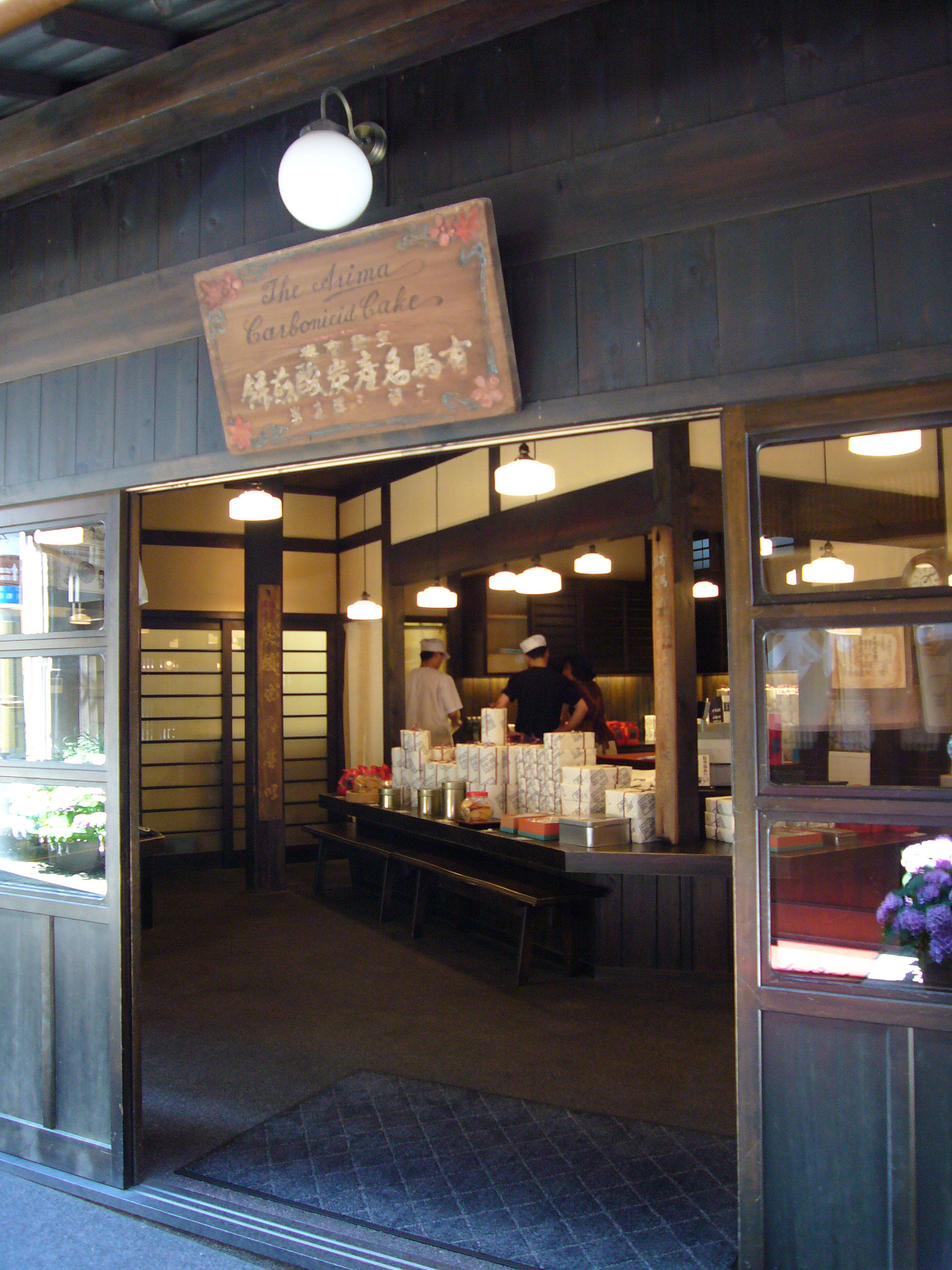 Yumotozaka-Street of Arima onsen in Kobe, Hyogo prefecture, Japan